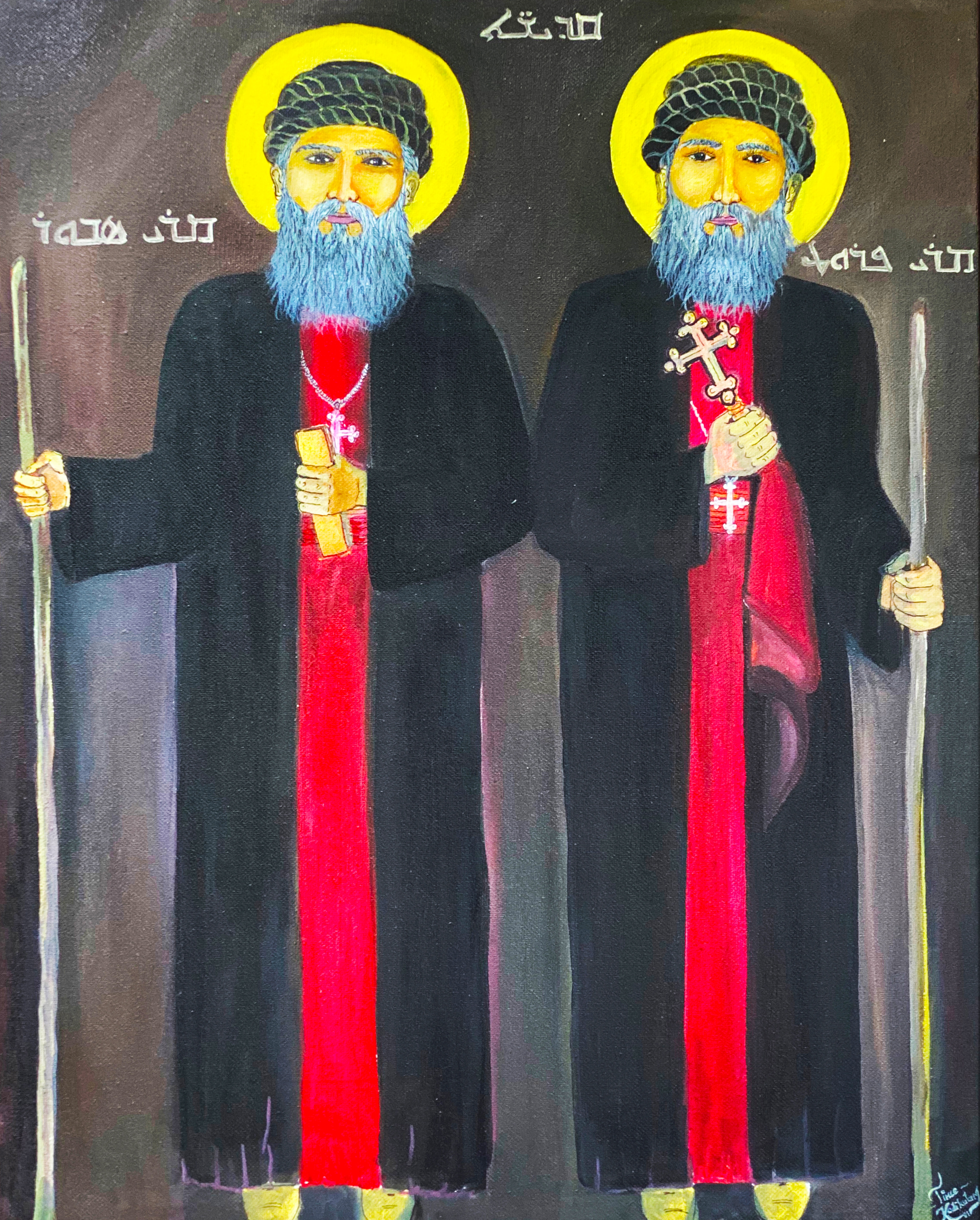 Mar Sabor and Mar Proth East Syriac Persian Saints of the Malabar Church